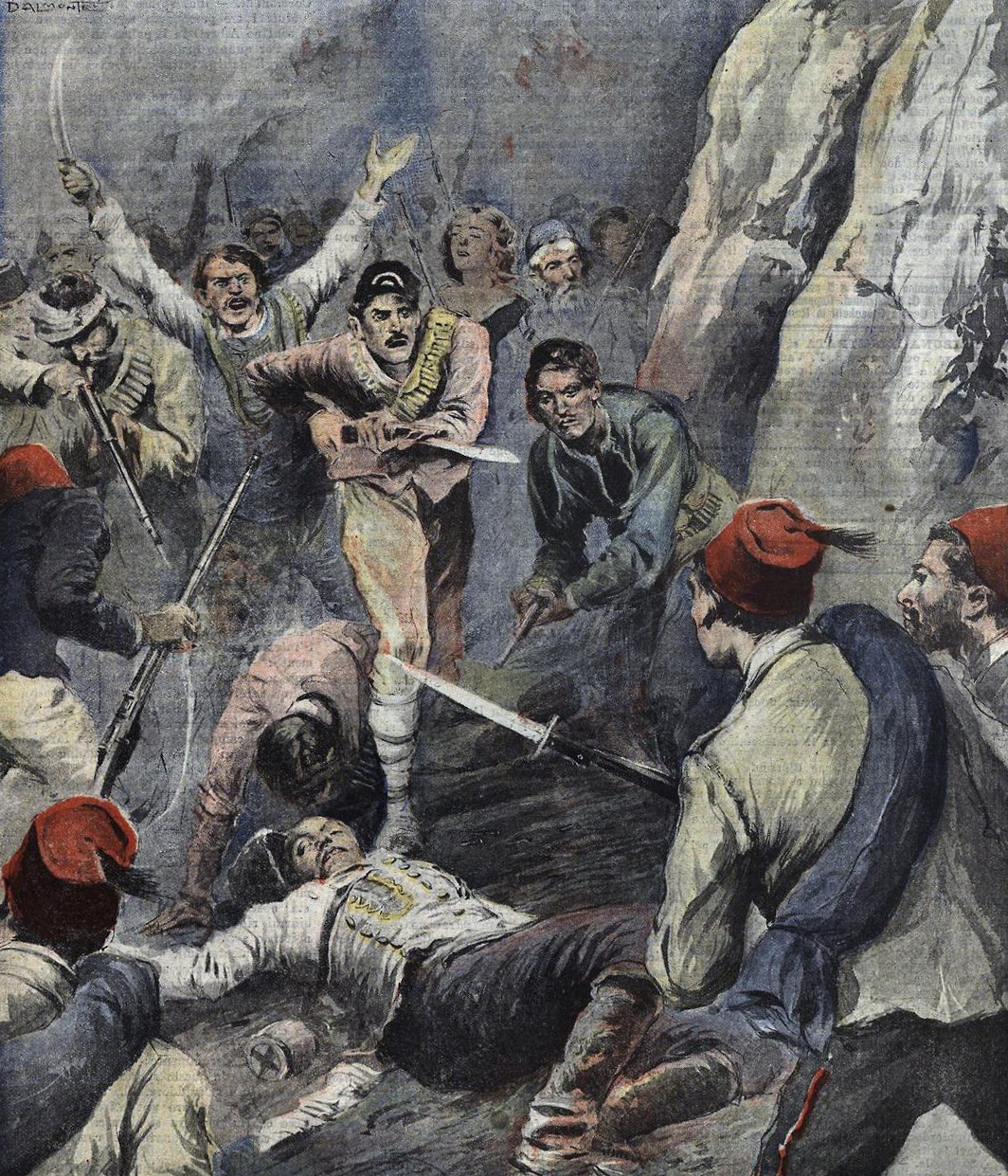 La Tribuna Illustrata article from August 16, 1910